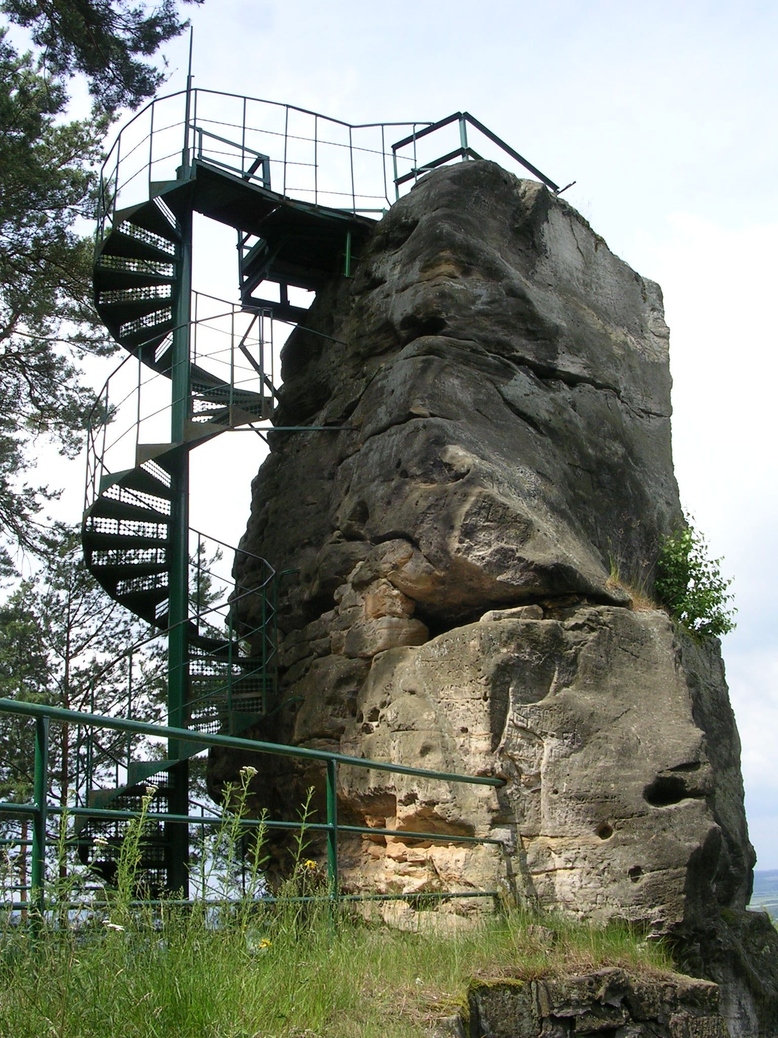 Turnov-Mašov, Liberec Region, the Czech Republic. View tower of Hlavatice.